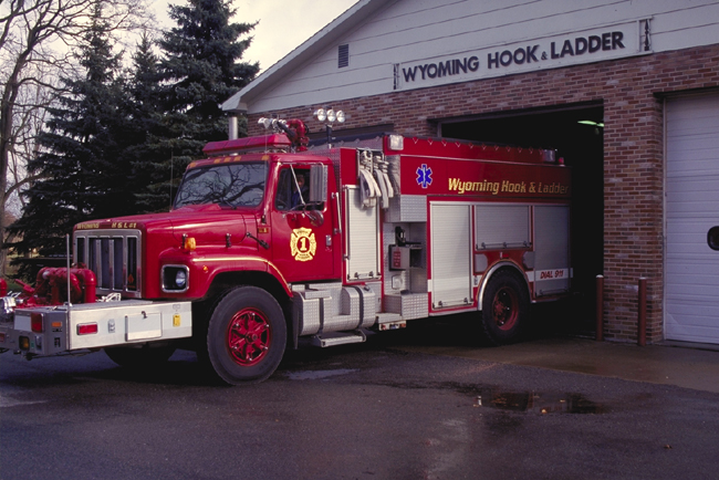 US fire engine in Wyoming(The truck (without body) is an International S2600)